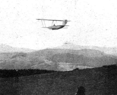 Dresden Stehaufchen flying at the 2nd Rhön contest, 1922